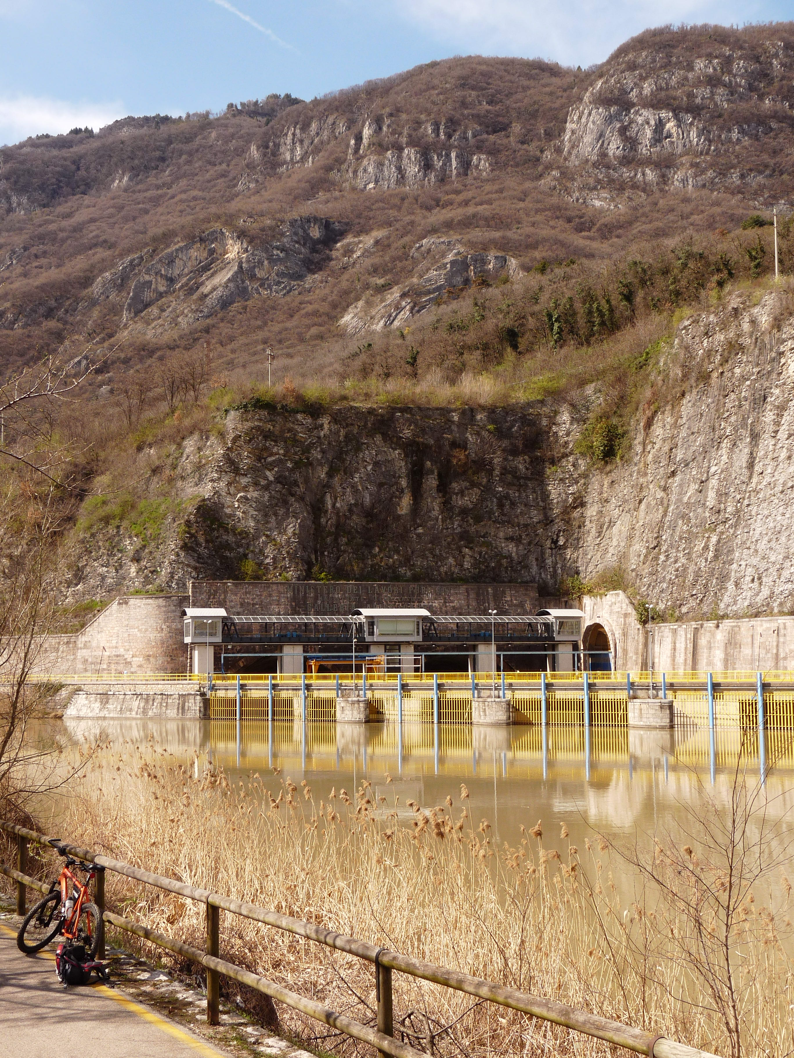 Mori (Italy): entrance of the Mori-Torbole tunnel (galleria Adige-Garda), allowing the discharge of water from the Adige river to lake Garda to prevent flooding.